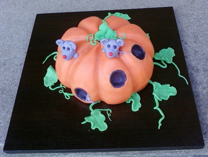 Image of cake, Gaga, Serbia